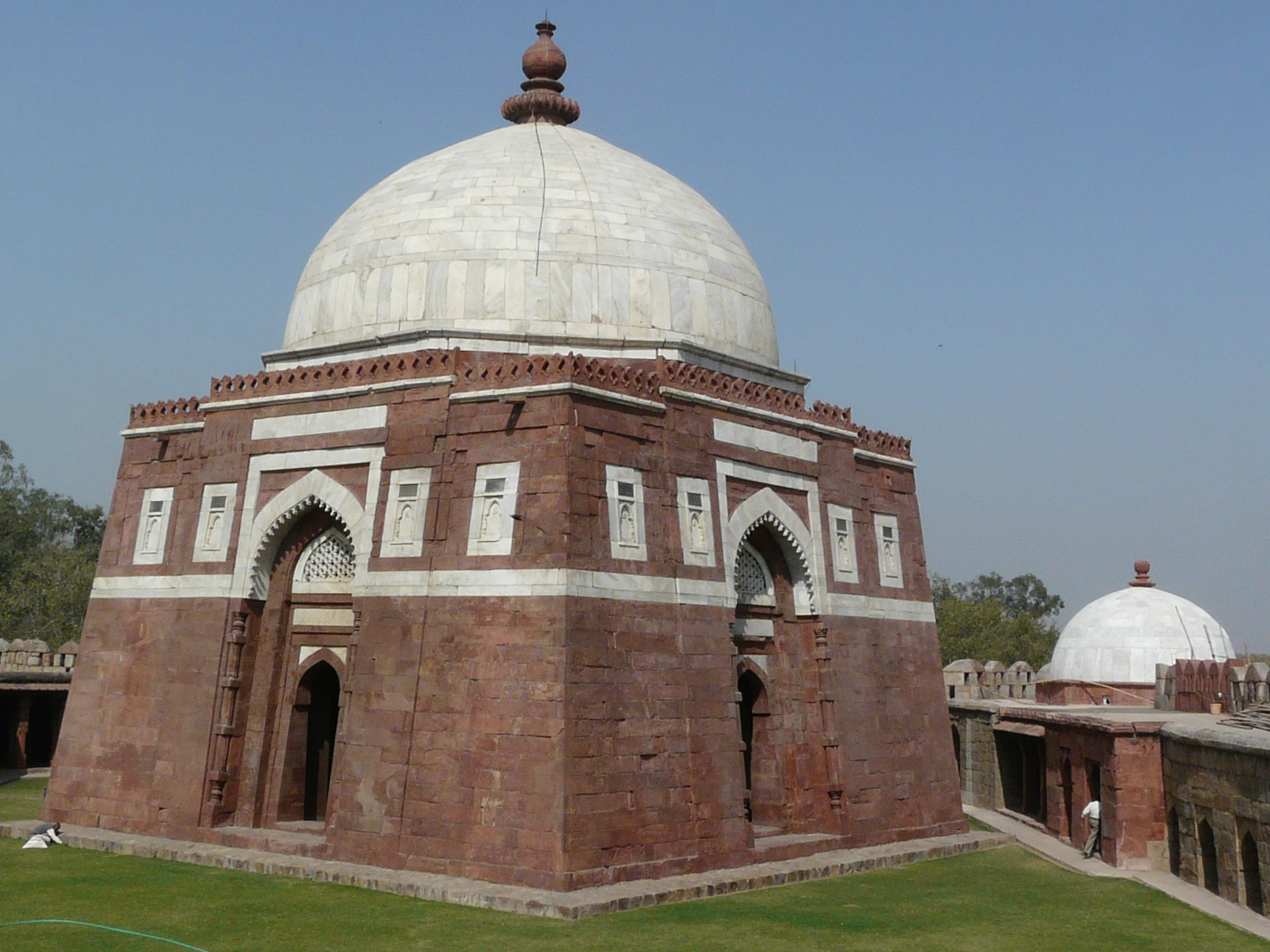 Tomb and side tomb